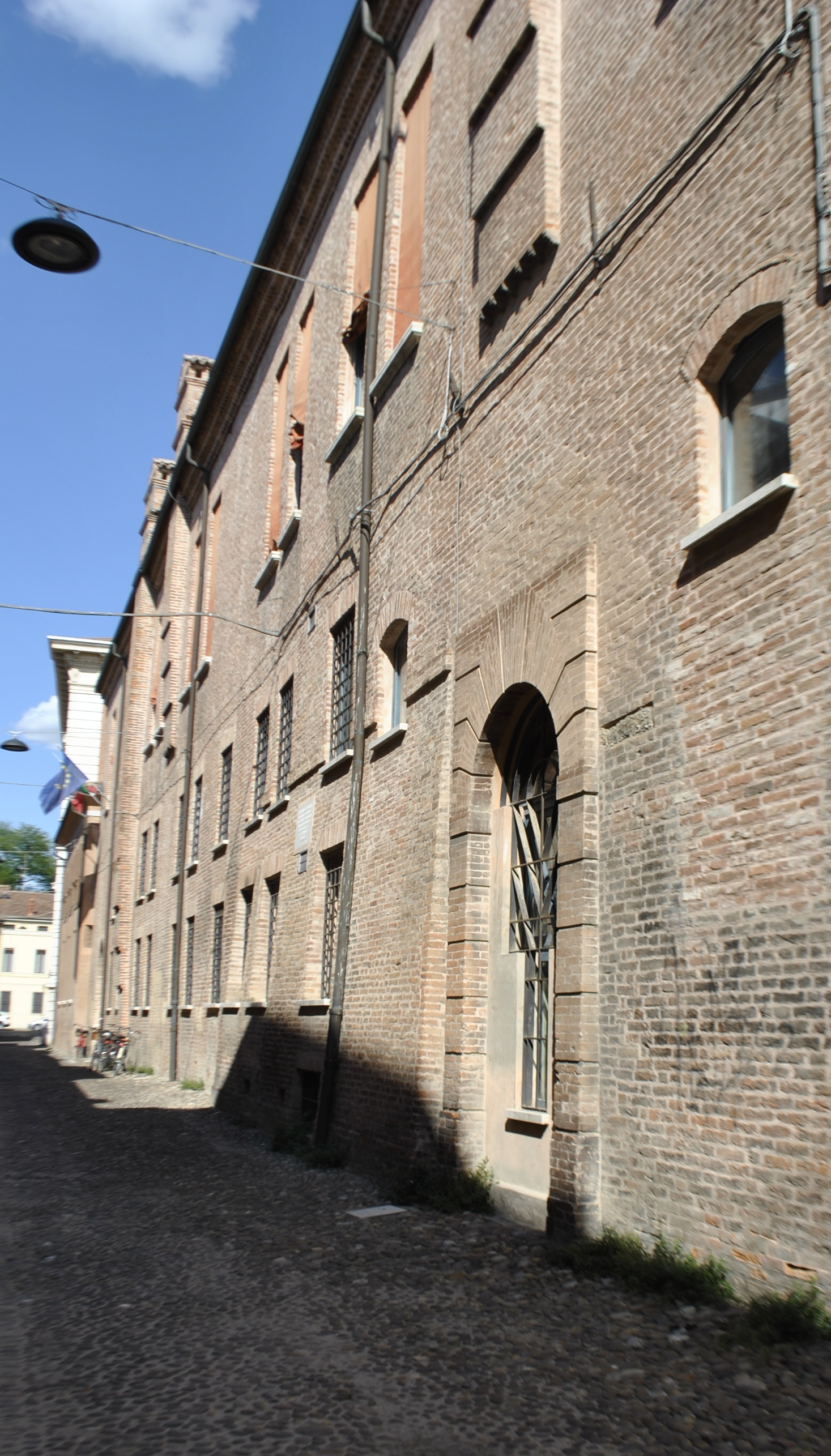 Facade, Palazzo Pendaglia, - IPSSAR Orio Vergani, via Sogari, Ferrara This is a photo of a monument which is part of cultural heritage of Italy.